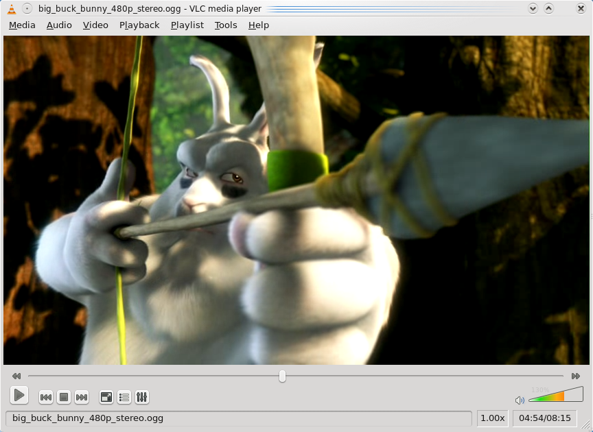 Scene in Big Buck Bunny playing in VLC media player 0.9.8a using Fedora 10 on KDE 4.2.1.